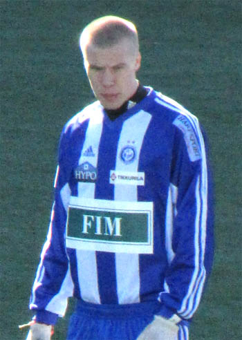 Finnish footballer Jukka Sauso during Veikkausliiga match between HJK and KuPS.